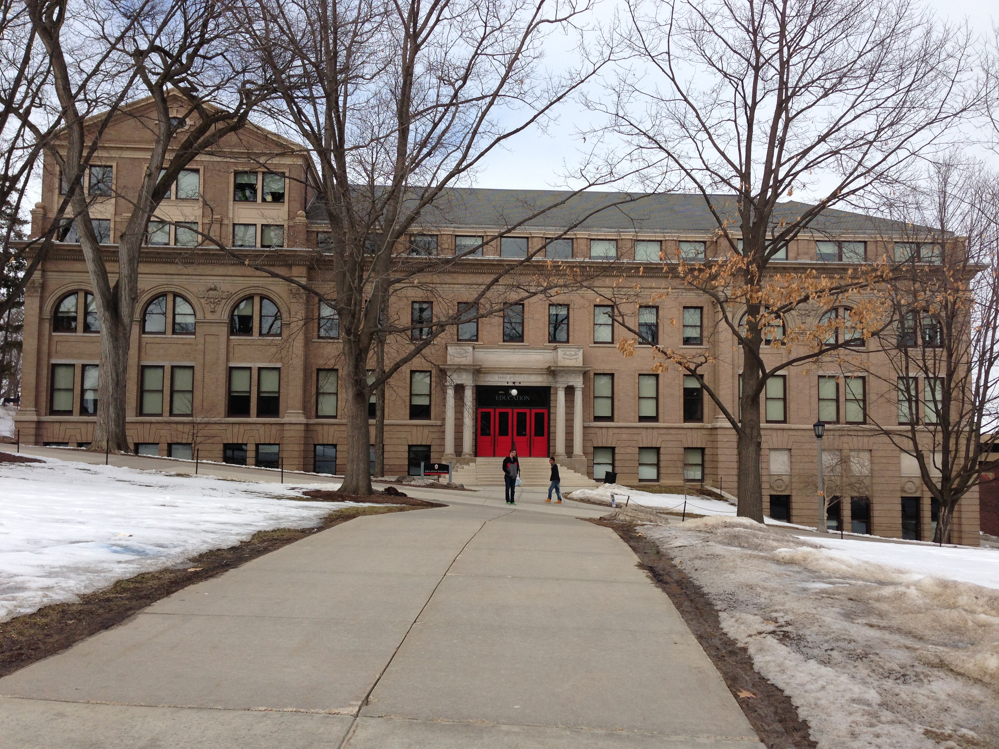 Front of the UW–Madison Education Building from the middle of Bascom Hill